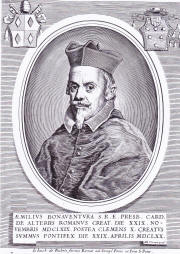 Cardinal Emilio Altieri (future Pope Clement X)